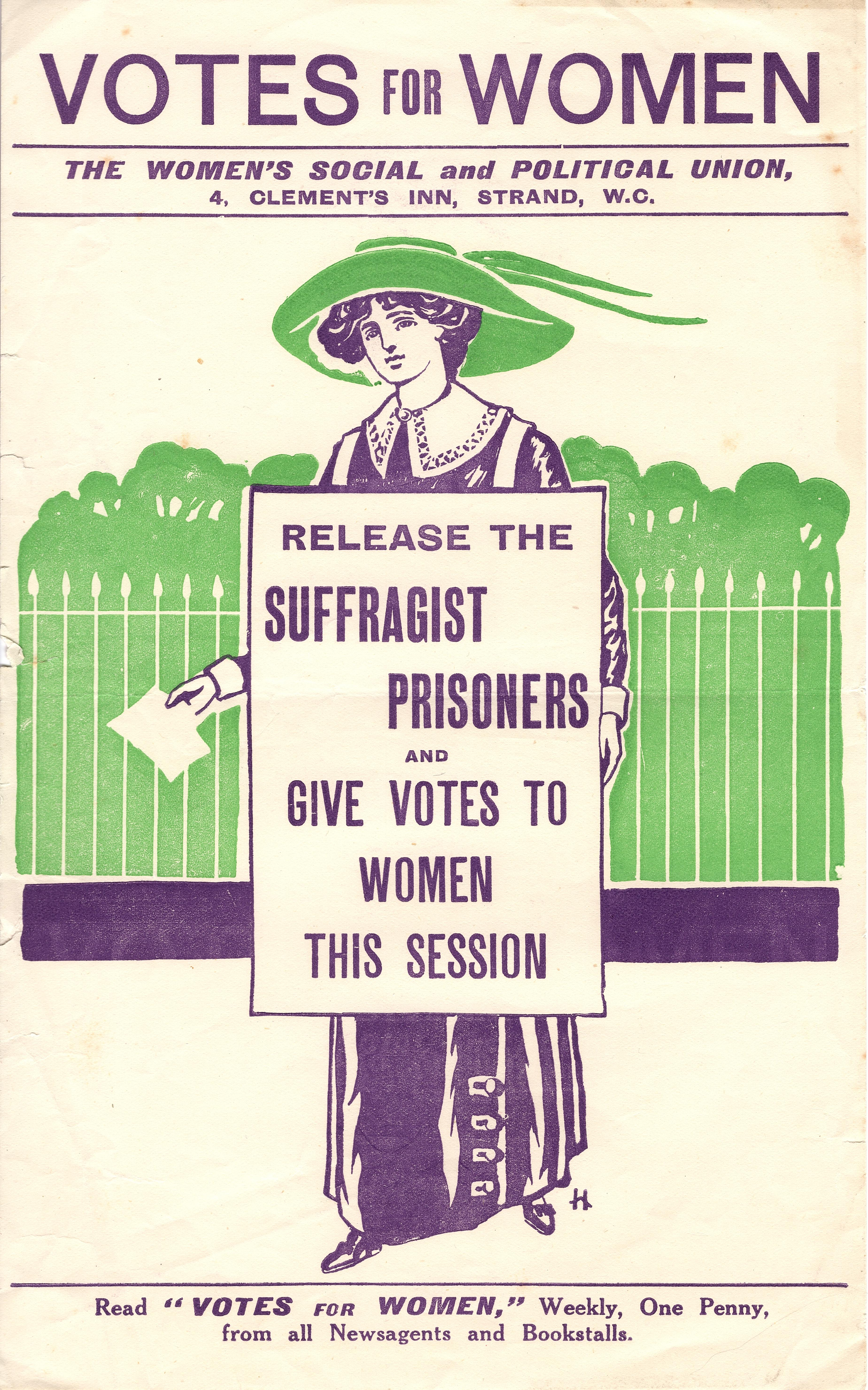 WSPU leaflet 7hfd